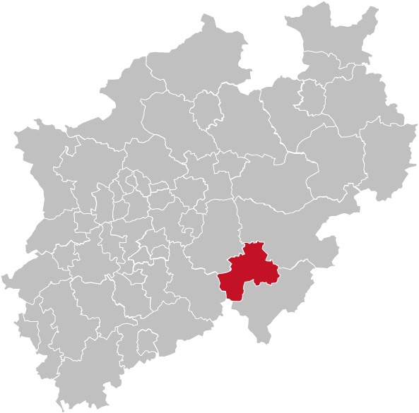 Map of Kreis Olpe, a District of Northrhine-Westphalia (NRW), Germany. Red/Grey colors match the color scheme of Germany maps and information boxes in German Wikipedia. Kreis is highlighted in red. Former version of map was based upon Image:North rhine w template.png that displayed some districts in the Cologne/Bonn area not correctly.based upon template